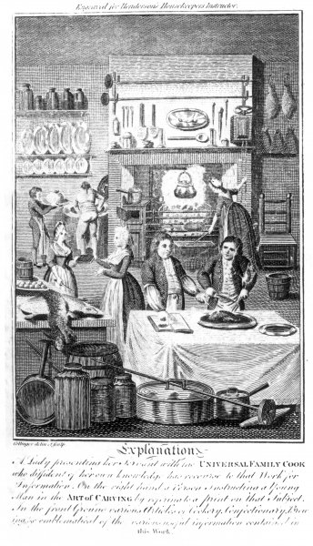 Frontispiece of an early edition of William Augustus Henderson's The Housekeeper's Instructor, first published 1790. The image recursively shows the book itself on the table, being used to instruct in the art of carving; people co-operate on kitchen tasks in the background.